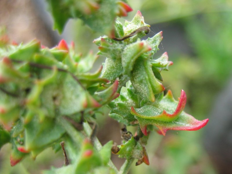 Strand-Melde Atriplex littoralis, Wismarbucht